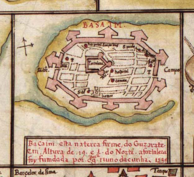 Map of Bassein(Vasai), a important town, near Mumbai(formerly Bombay)